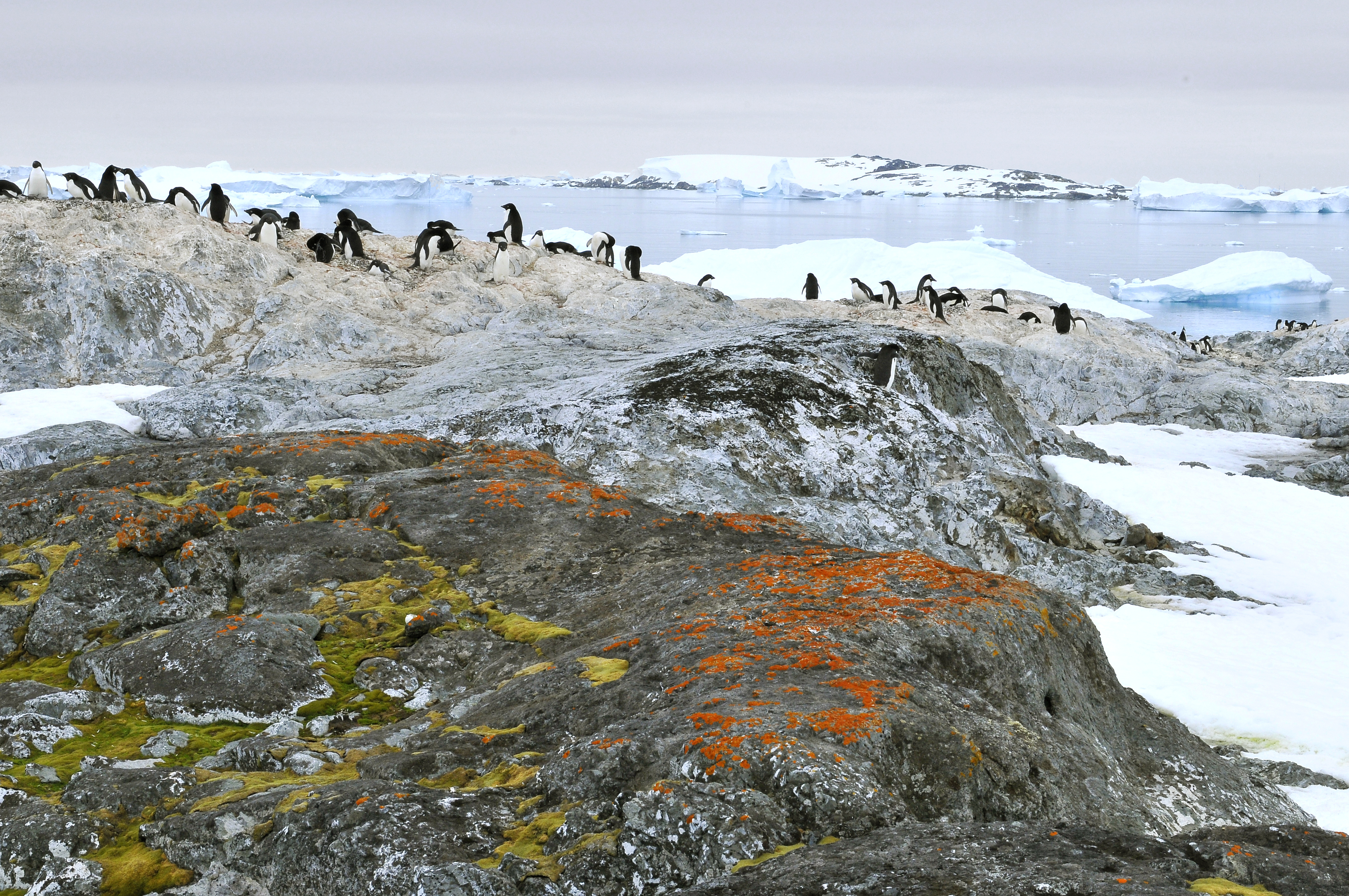 A colony of Adélie penguins; in the foreground, mosses and lichens. Yalour Islands, Wilhelm Archipelago, Antarctica